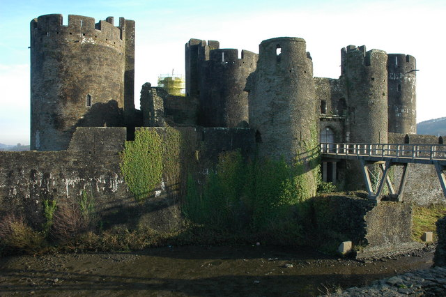 Caerphilly Castle Caerphilly Castle viewed from the north-west across the partially drained Inner Moat, from left to right is the North-West Tower, Inner West Gatehouse and the Outer West Gatehouse.